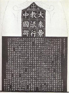 Reproduction of drawing of the Cross and part of the text from Nestorian Stele, Xi'an